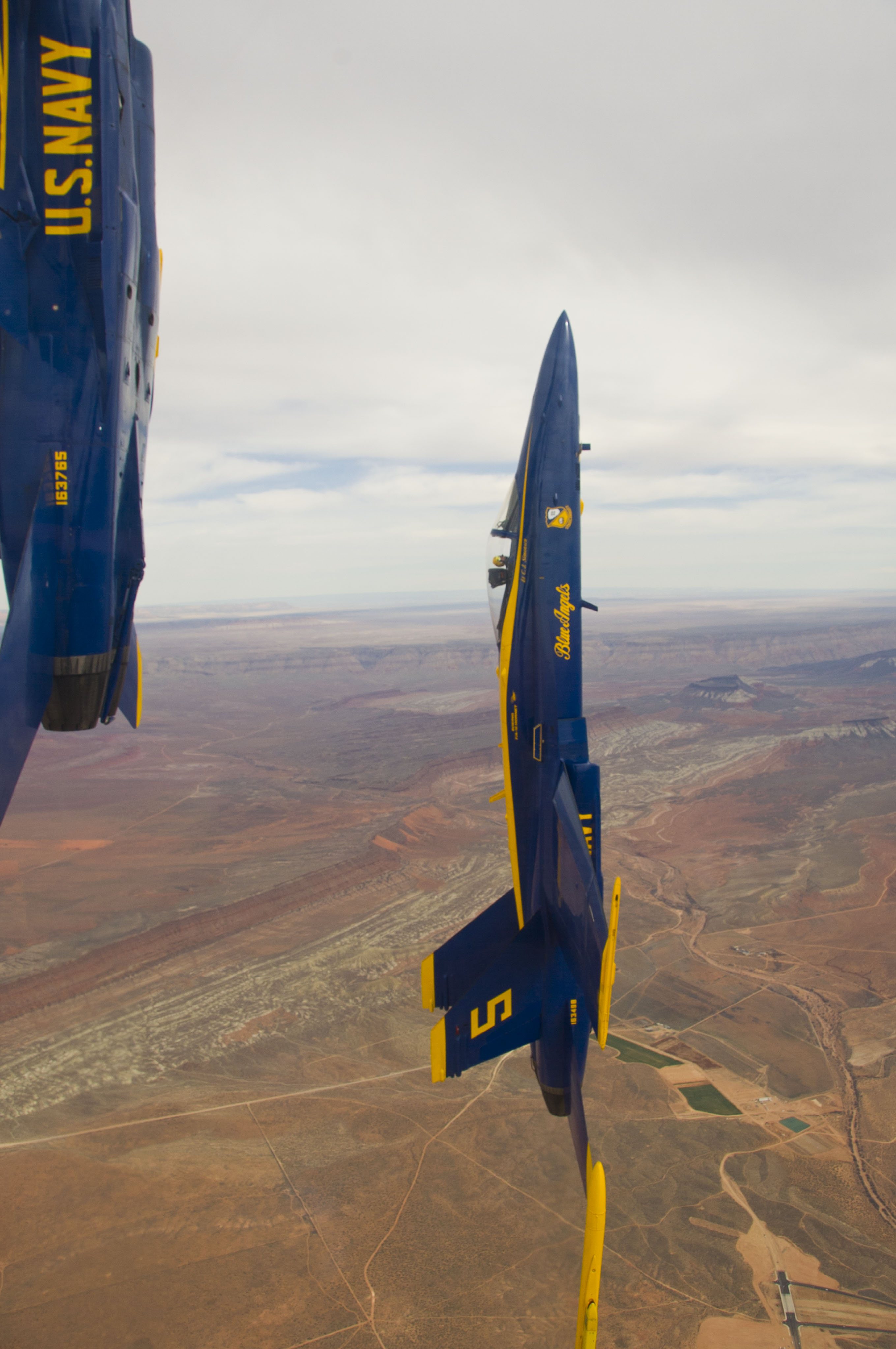 ST. GEORGE, Utah (March, 16, 2012) Lt. C.J. Simonsen, lead solo pilot for the U.S. Navy flight demonstration squadron, the Blue Angels, flies in formation over St. George, Utah. The Blue Angels performed in Utah for the first time in more than 30 years during the Thunder Over Utah Air Show and as part of the 2012 air show season. (U.S. Navy photo by Mass Communication Specialist 1st Class Rachel McMarr/Released) 120316-N-DI587-758